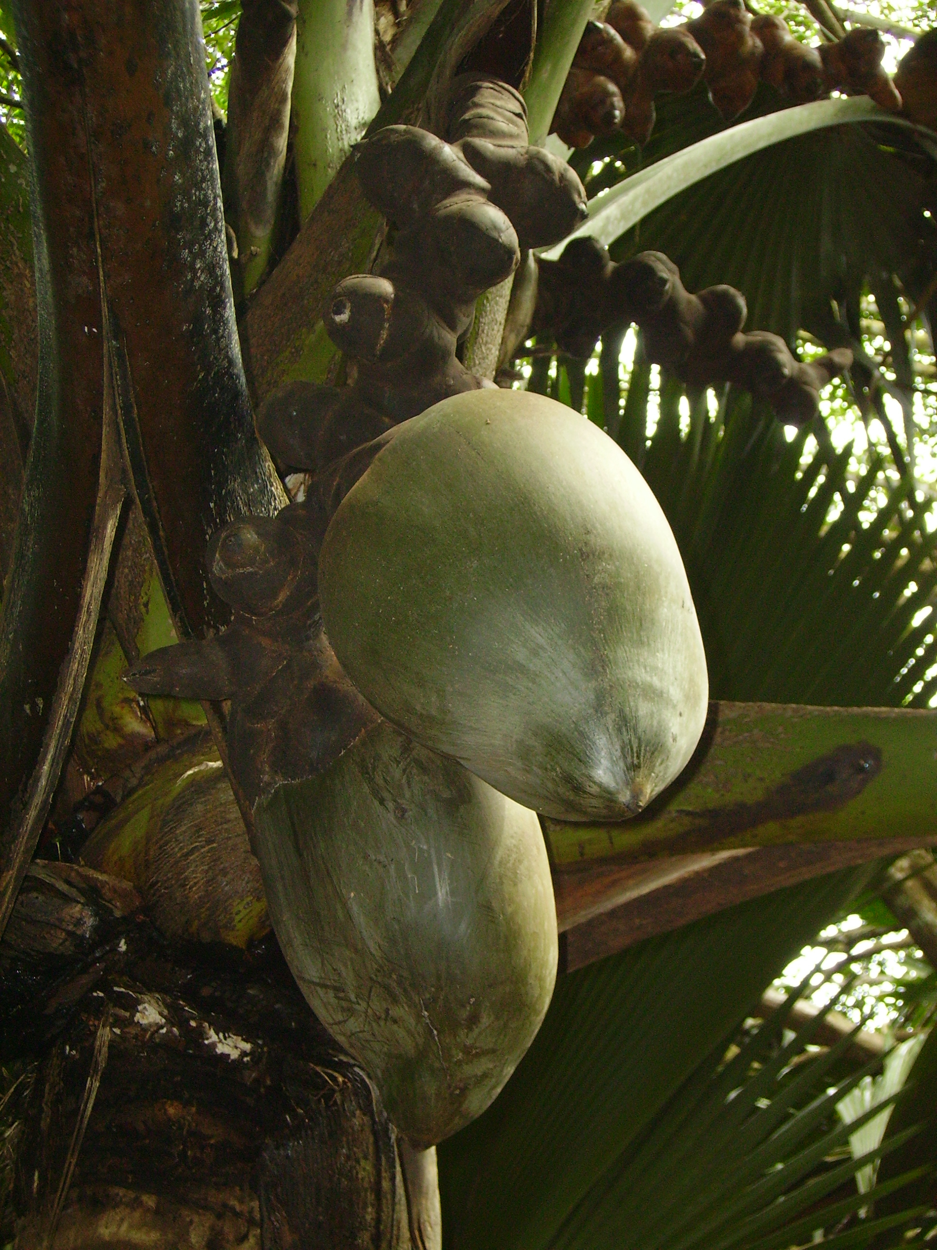 A female Coco de mer palm tree with some seeds in the growth, Praslin, Seychelles.